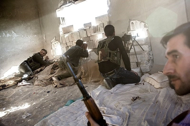 Fighting between Kurdish gunmen and the terrorists from al-Nusra Front is underway in the town of Ras al-Ayn in Hassakeh Province